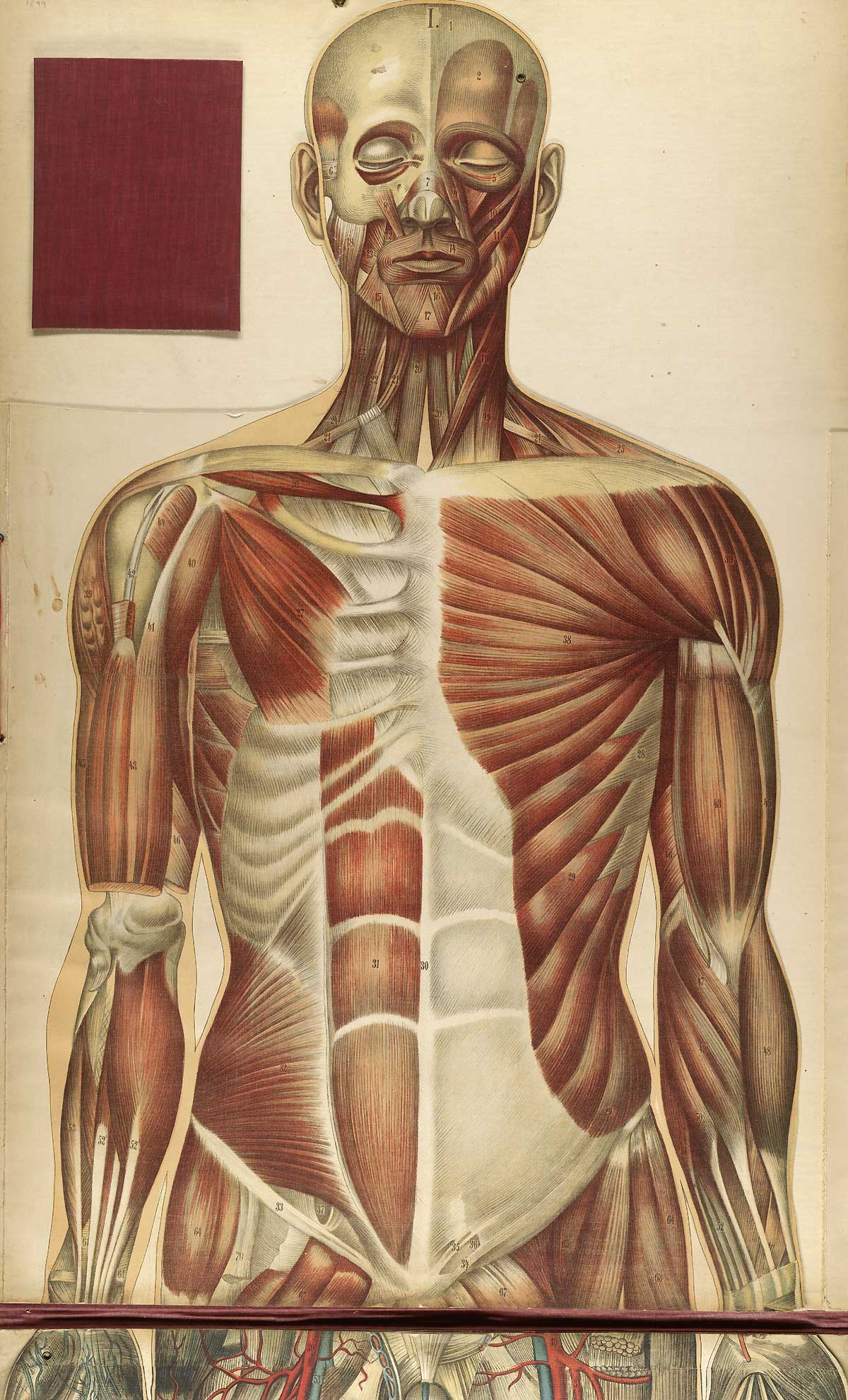 Title: Le corps humain et grandeur naturelle : planches coloriées et superposées, avec texte explicatif. Author(s)/Name(s): Bouglé, Julien. Publisher: Paris : J. B. Baillière et fils, 1899. Description: 1 plate : col. ill. Language: fre Electronic Links: MeSH Subjects: Anatomy Atlases Notes: "Texte explicatif": 15 p. inserted in pocket. Portions also available online. NLM Unique ID: 0227562